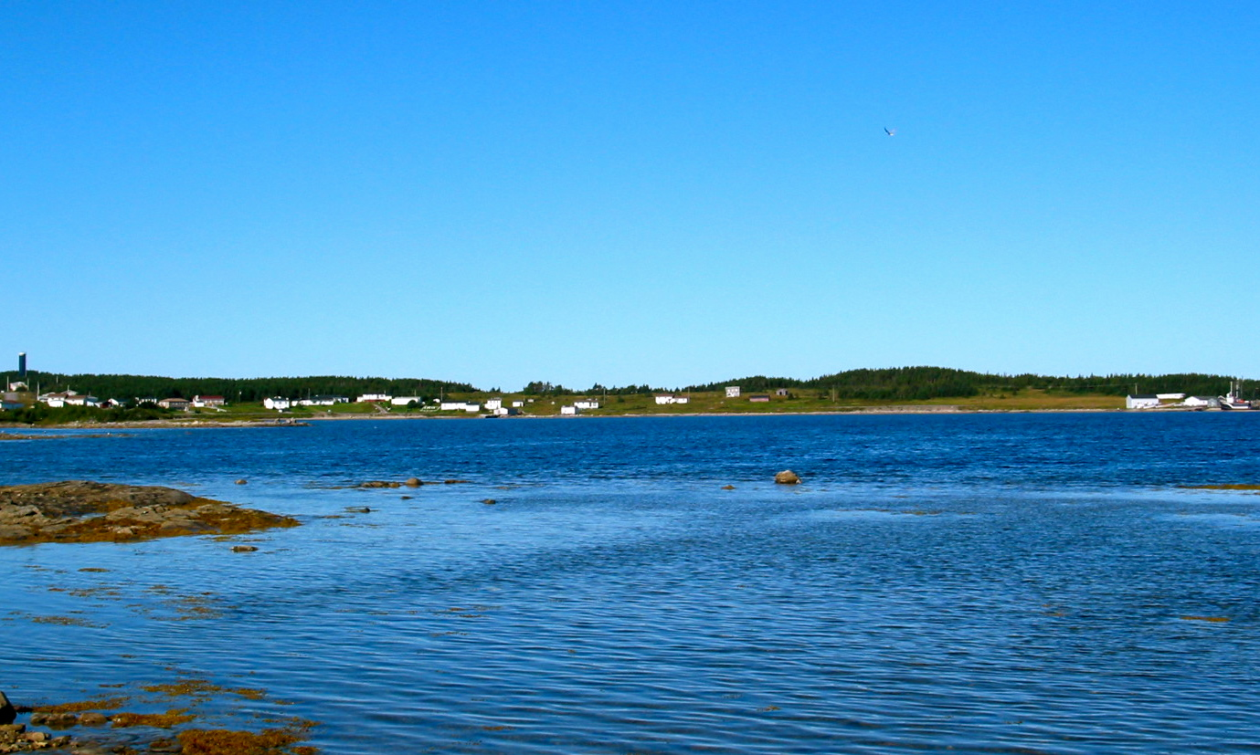 Brig Bay Harbor from the SE near The Steady